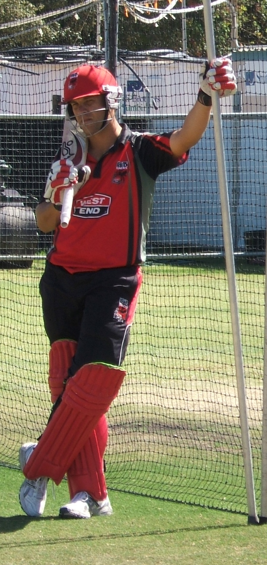 Named person engaging in named action at Adelaide Oval nets/training ground